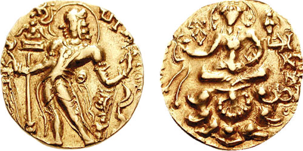 Skandagupta Circa 455-480 CE. V Heavy Dinar (9.08 g, 12h). Archer type. Skandagupta, nimbate, standing left, holding arrow and bow; Garuda standard behind / The goddess Lakshmi, nimbate, seated facing on open lotus, holding diadem and lotus; tamgha to left.